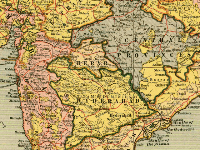 From map of India by Dodd, Mead and Company, 1903. Library of Congress Geography and Map Collection. Call Number G7650 1903 .D6 TIL